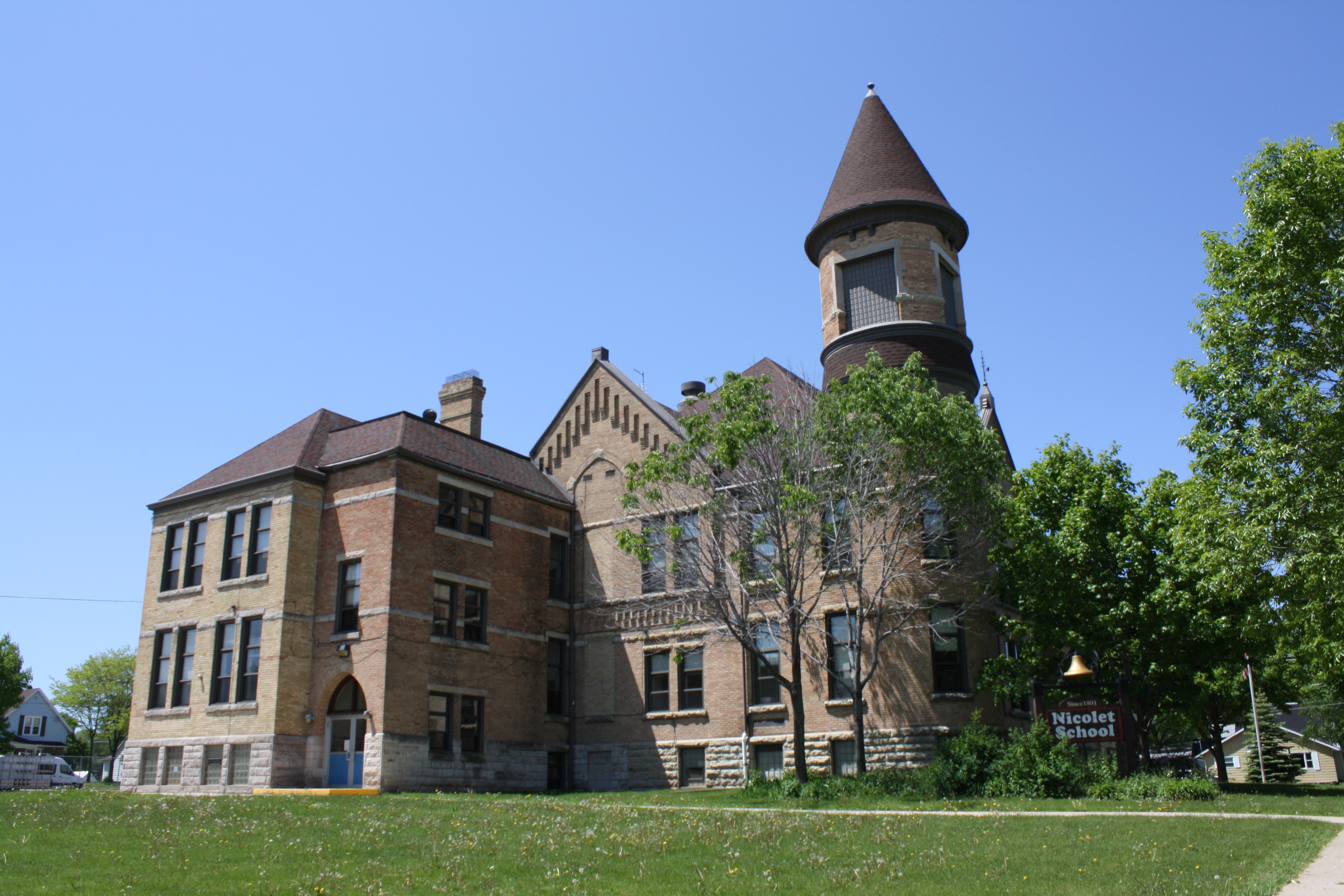 The Nicolet Public School in Kaukauna, Wisconsin, listed on the National Register of Historic Places.